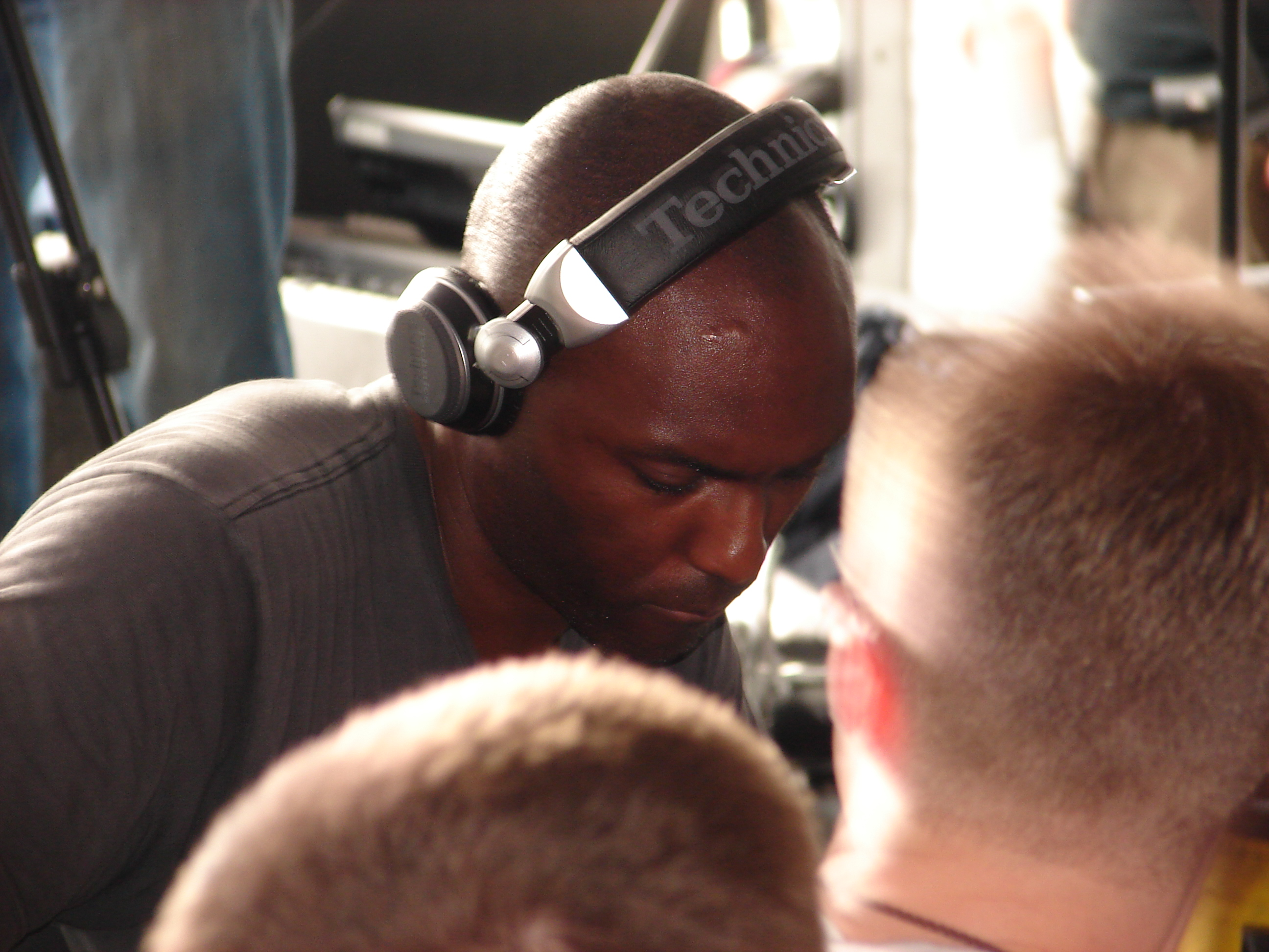 Kenny Larkin - Movement (Detroit's Electronic Music Festival) 07